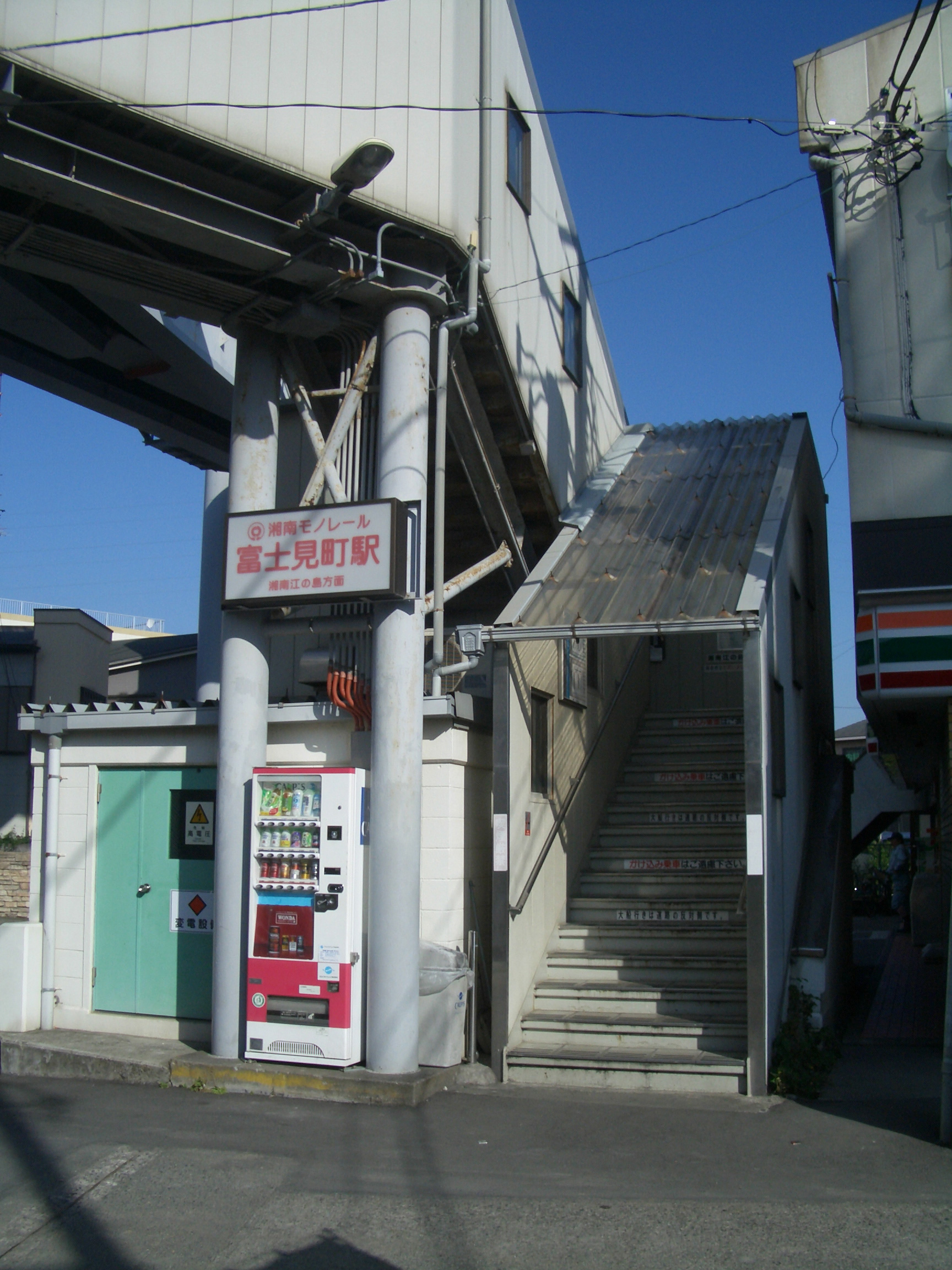 The entrance to the Shōnan-Enoshima-bound platform at Fujimichō Station on the Shōnan Monorail Line in Kamakura city, Kanagawa prefecture, Japan